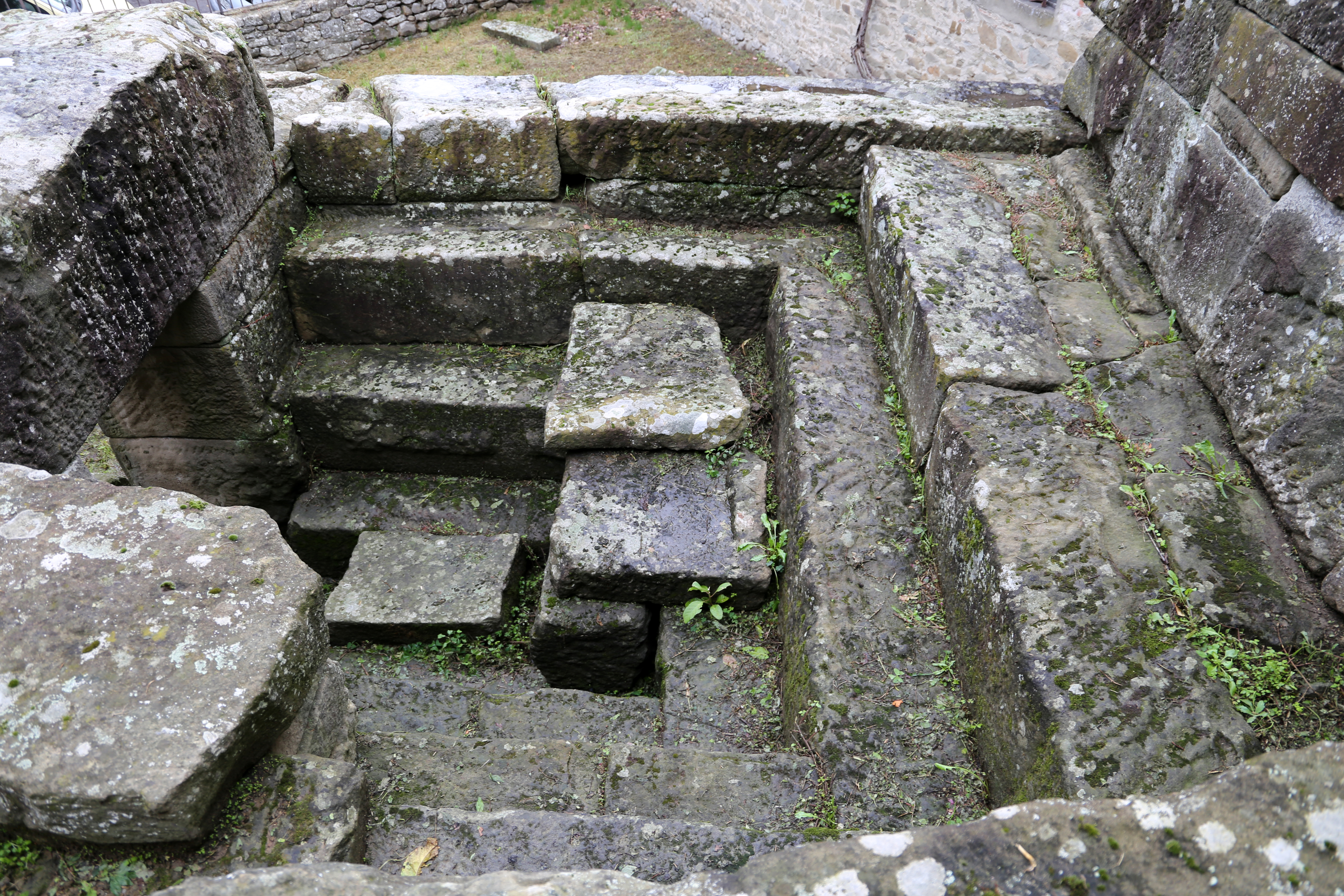 Fiesole miscellany